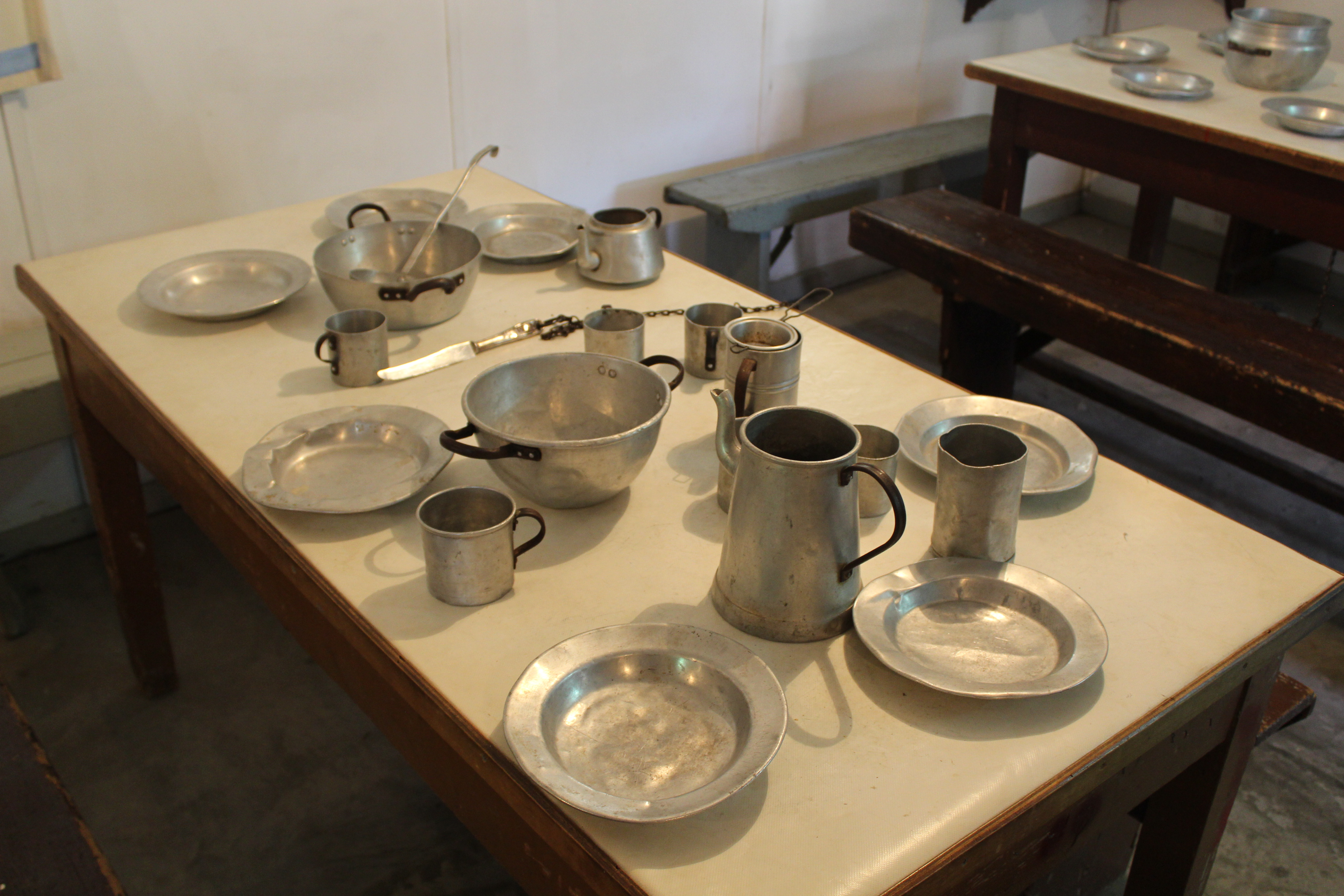 The Museum of Pioneer Settlement, Kibut Yifat The site's ID in Wiki Loves Monuments photographic competition is 6-0134-001